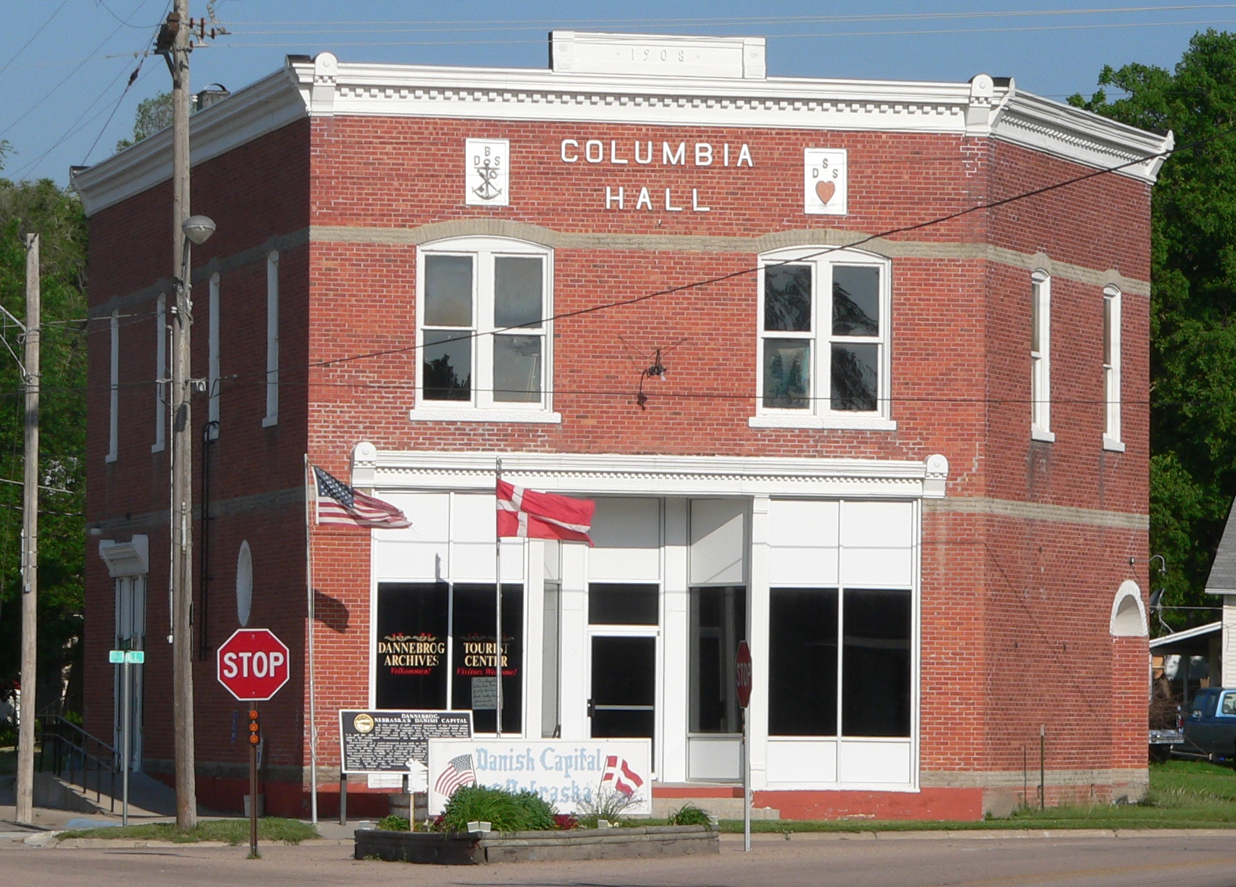 Columbia Hall, at the intersection of Roger Welsch Avenue and Mill Street in Dannebrog, Nebraska; seen from the southeast. The Commercial style building was constructed in 1908. It is listed in the National Register of Historic Places.